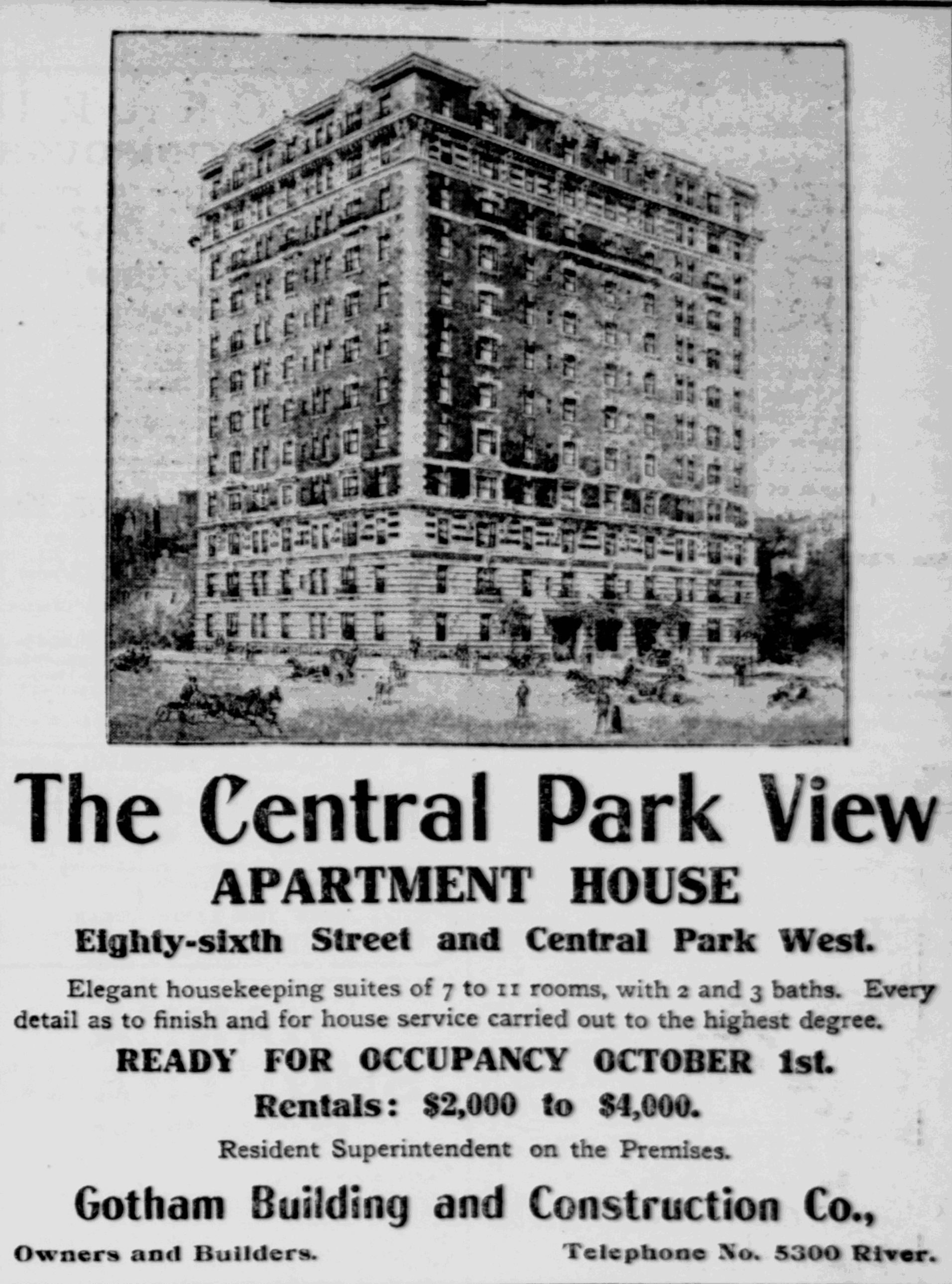 An advertisement in the New York Daily Herald as contained in the Chronicling America files of the Library of Congress